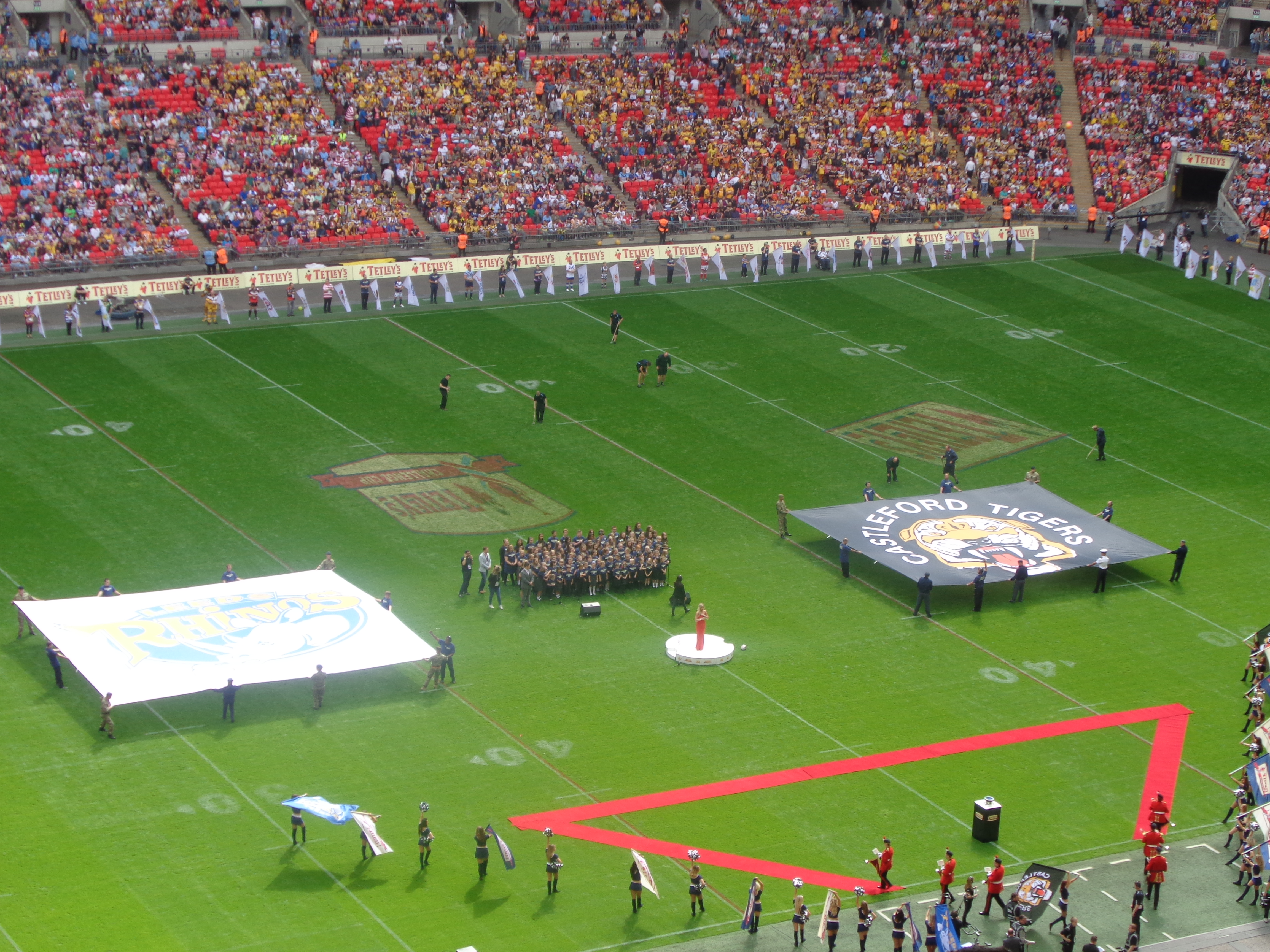 The teams line up on the pitch at Wembley Stadium before the 2014 Challenge Cup Final between Leeds Rhinos and Castleford Tigers. The match was won 23-10 by the Leeds Rhinos with Ryan Hall taking the Lance Todd Trophy and was kicked off on 3pm on Saturday the 23rd of August 2014.